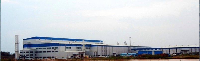 Paint Shop at Tata Motors, Hubli - Dharwad